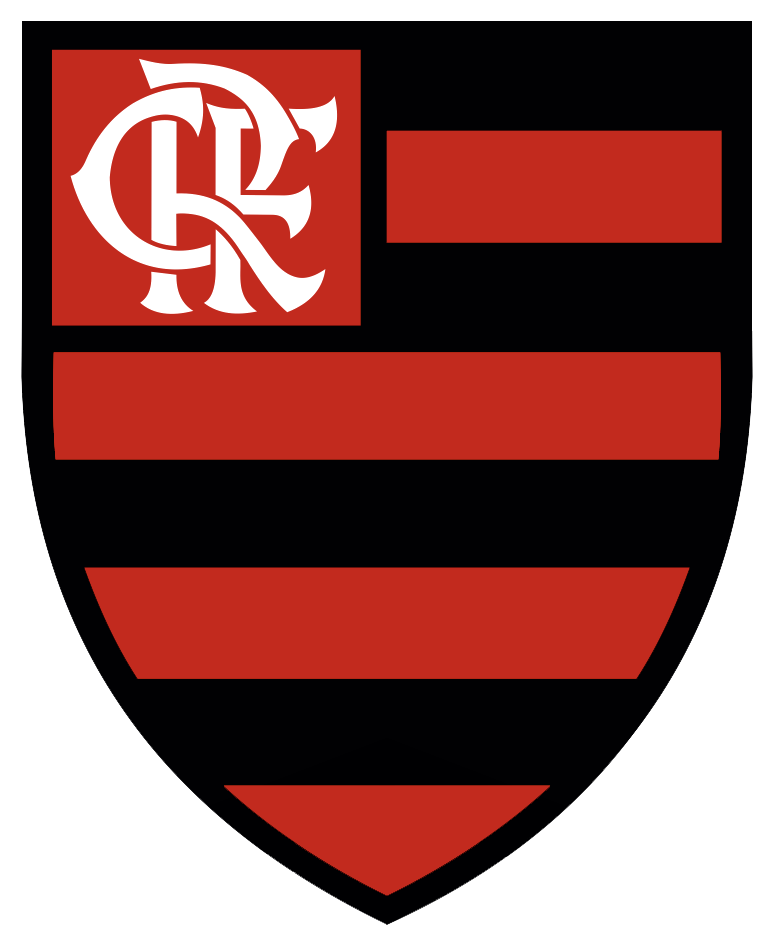 CR Flamengo logo 2018